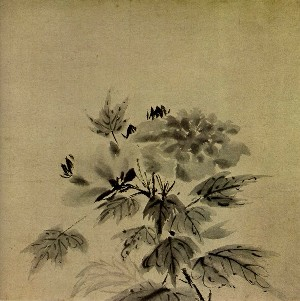 Hibiscus attributed to Muqi, Daitokuji, Kyoto, Japan